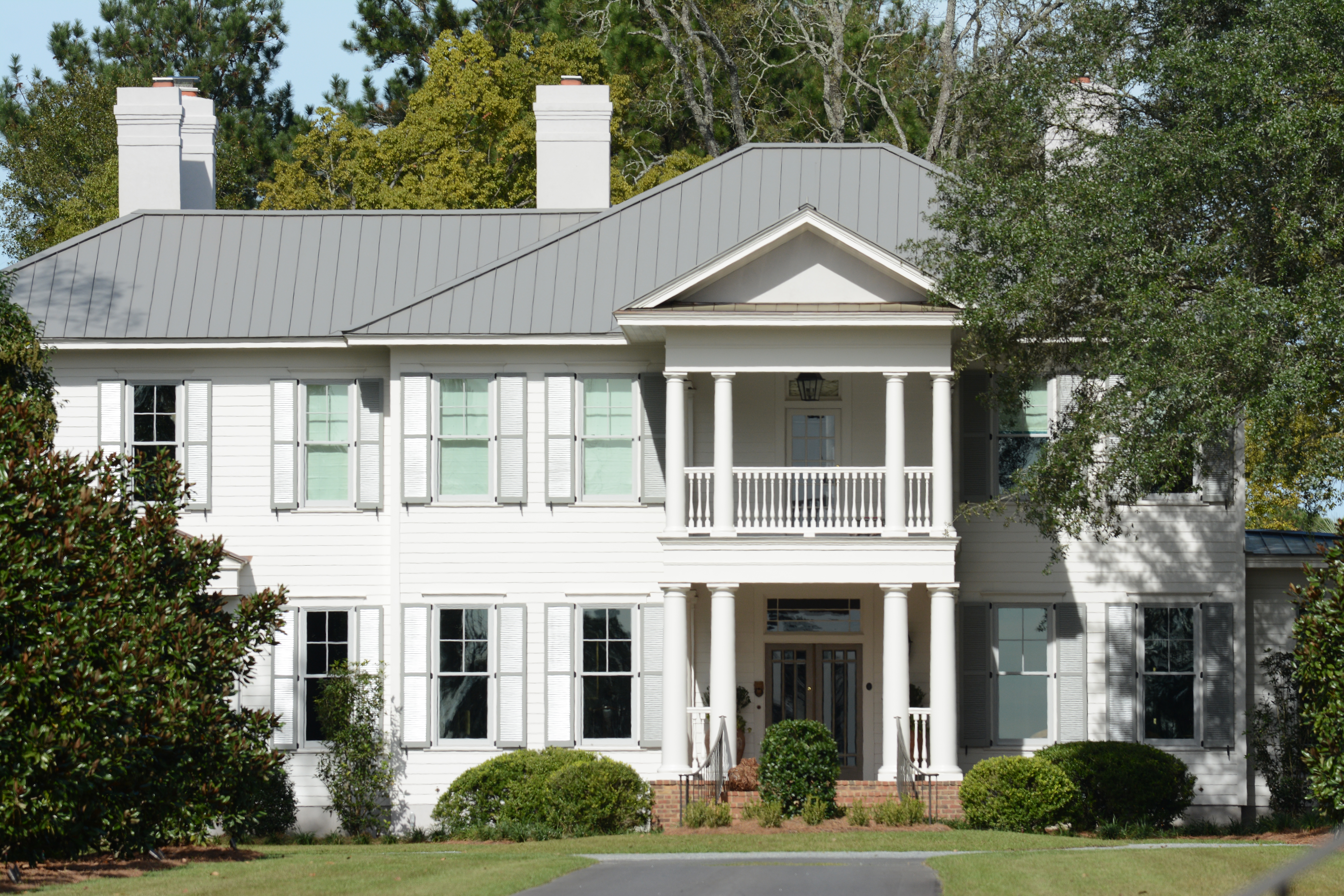 Crestwood